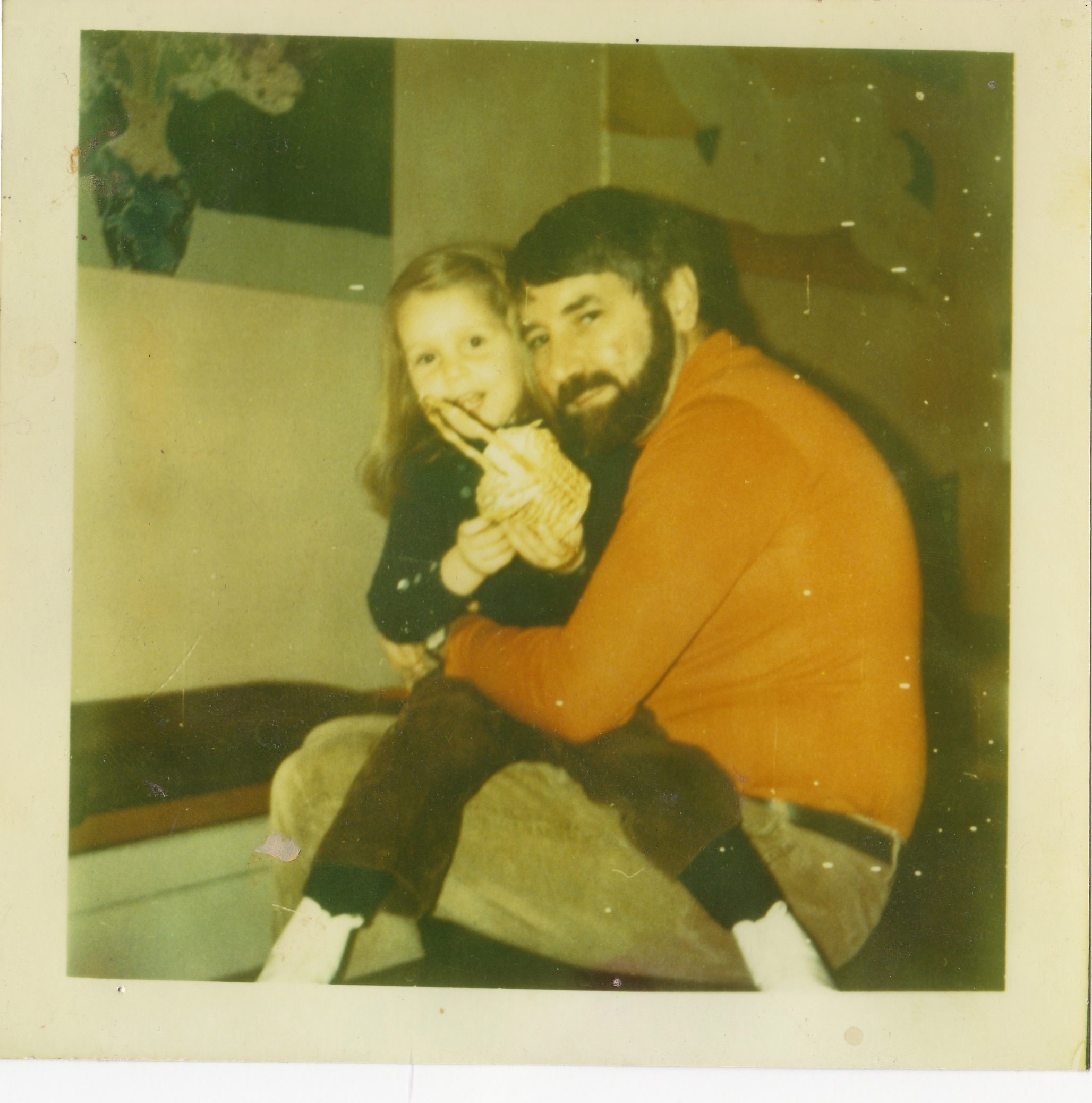 David Mercer and his daughter Maya Mercer